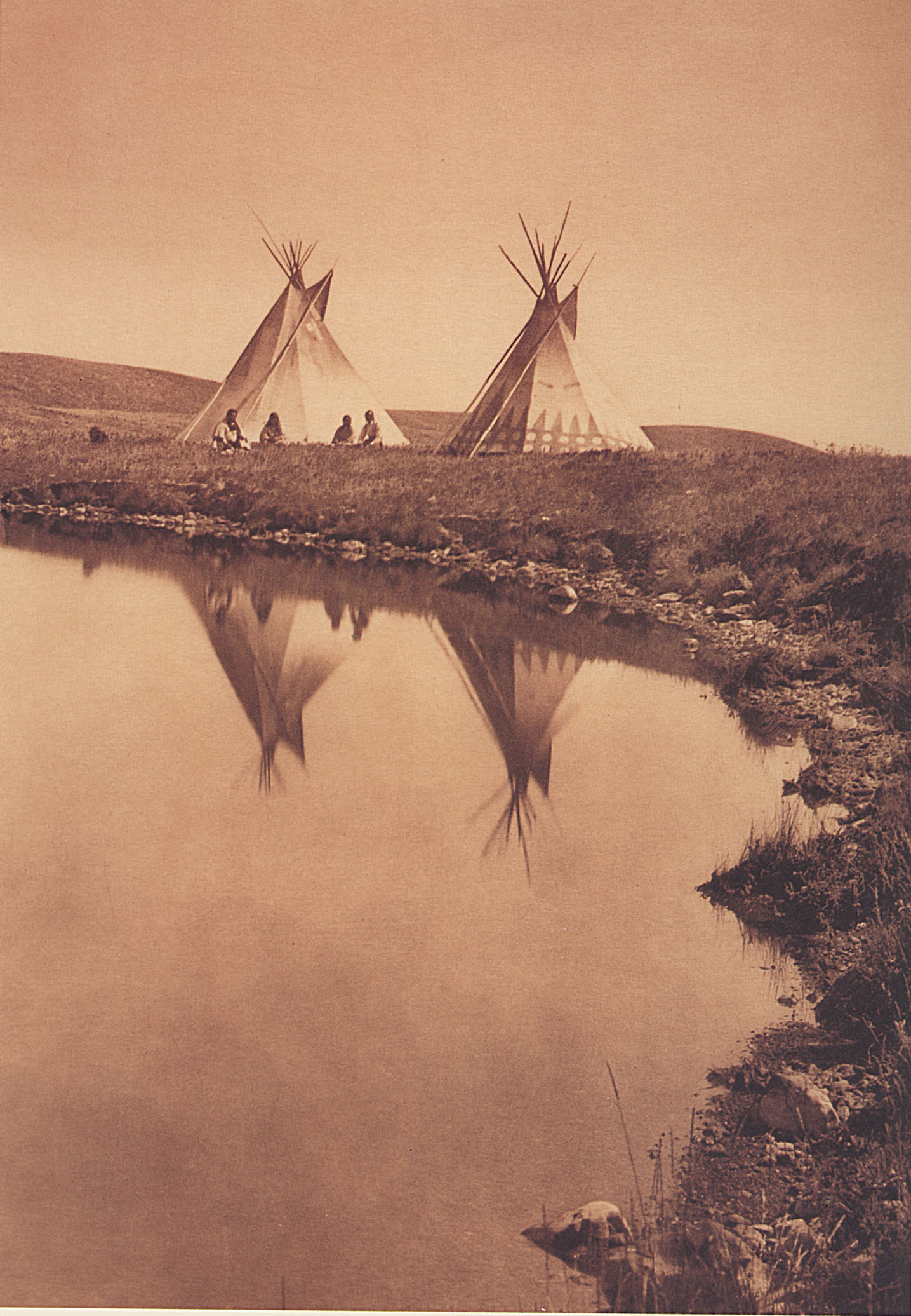 At the Water's Edge- Piegan (Blackfeet) Tipis.